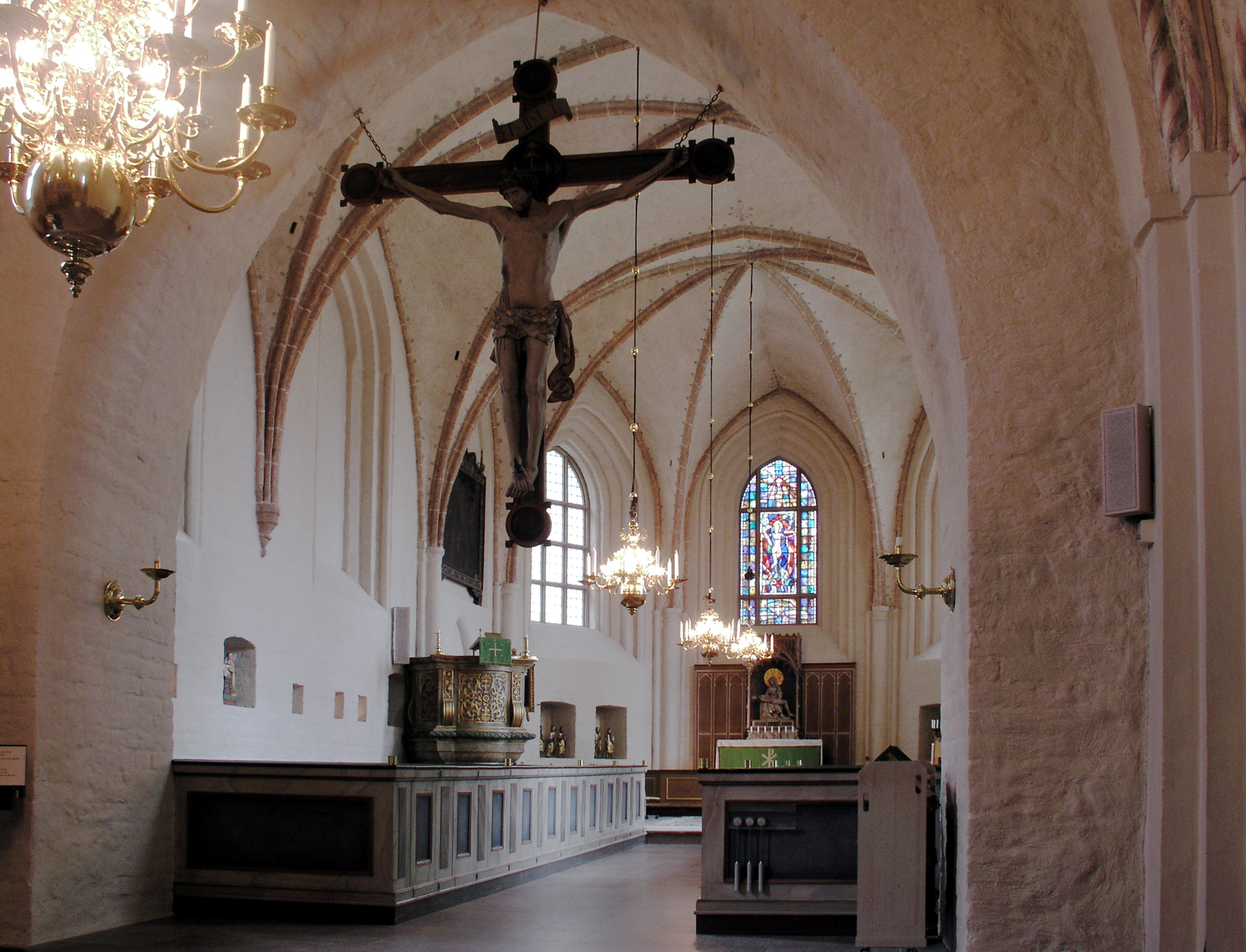 Askeby kyrka / Askeby church, Diocese of Linköping, Linköpings kommun. The picture was taken by Håkan Svensson (Xauxa) the 2nd of October 2005.